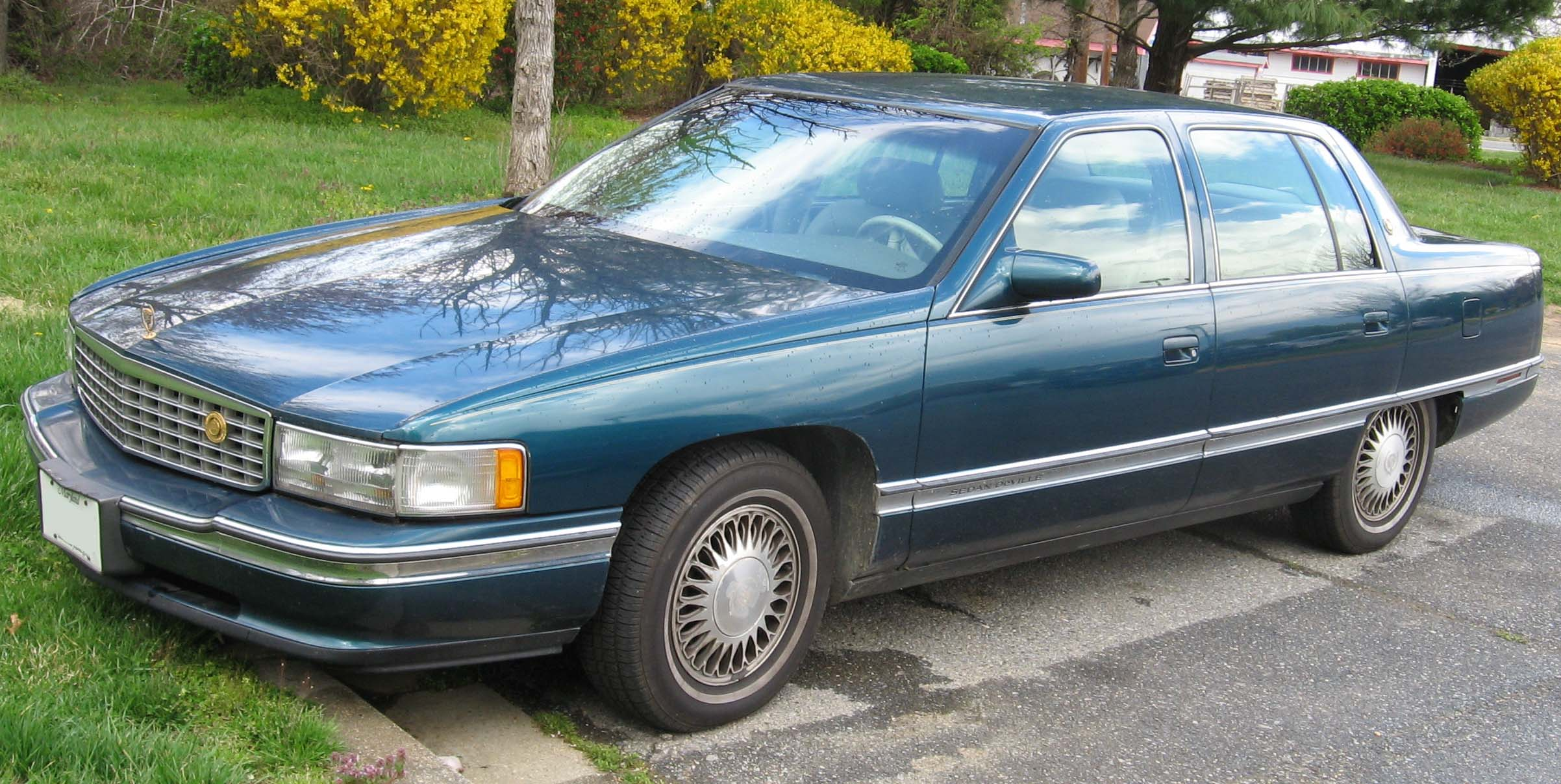 1994-1996 Cadillac Deville photographed in USA.